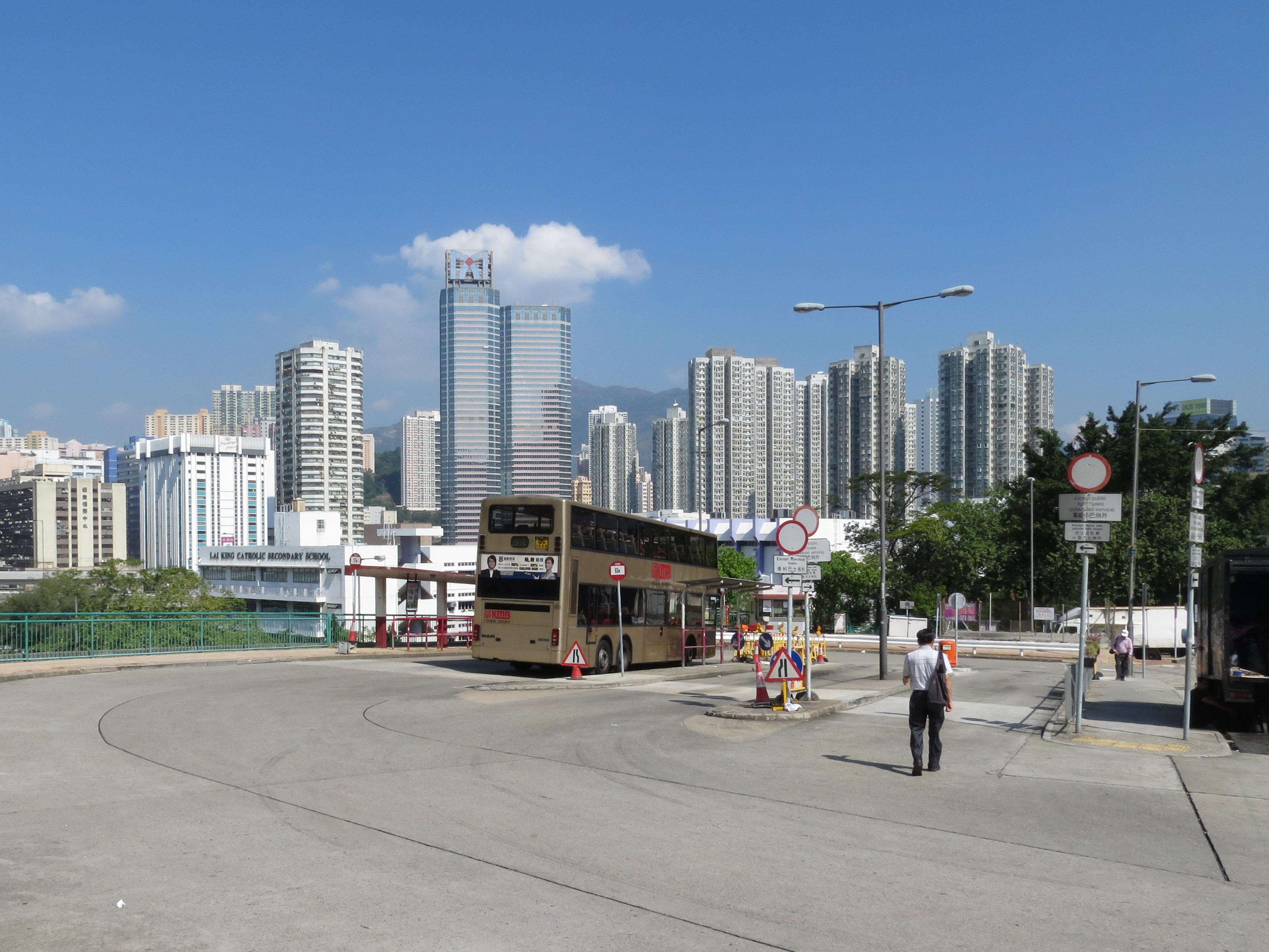 Lai King (North) Bus Terminus, Hong Kong.